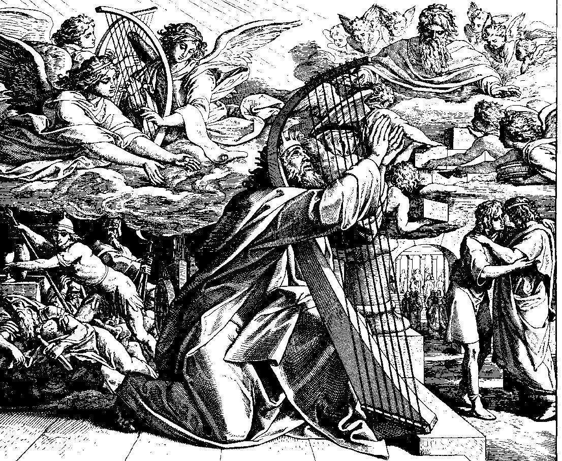 Woodcut for "Die Bibel in Bildern", 1860.